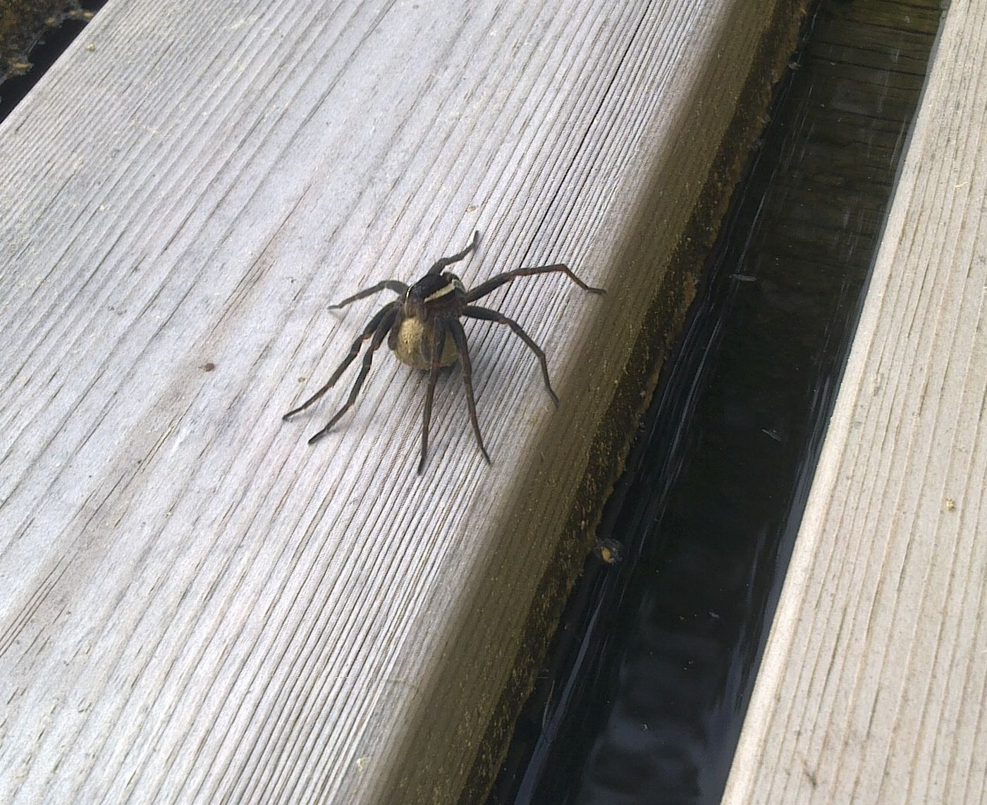 Raft spider female carrying her egg